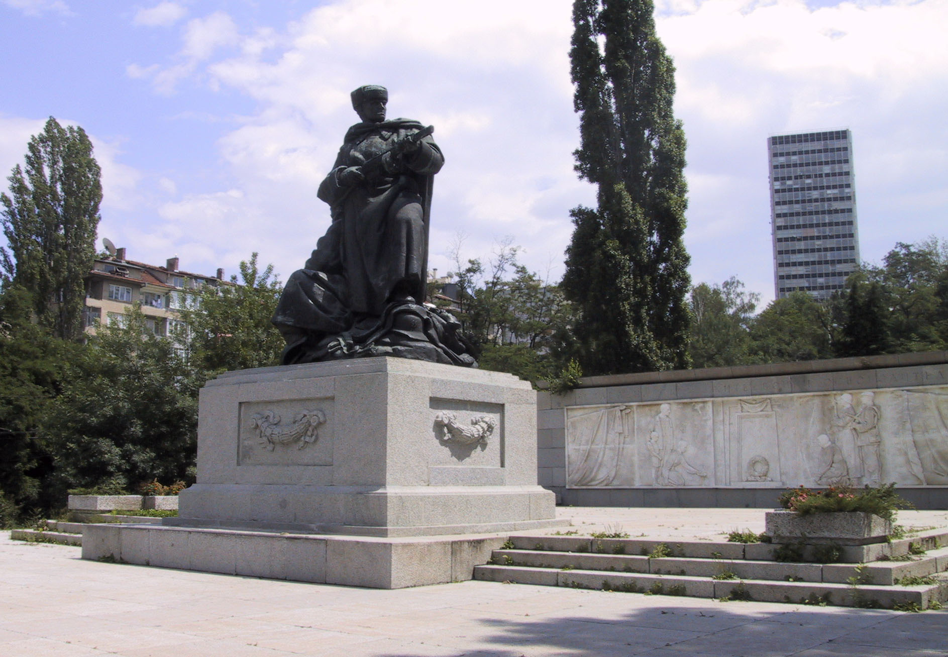 Monument of the Soviet soldier in Sofia, Bulgaria